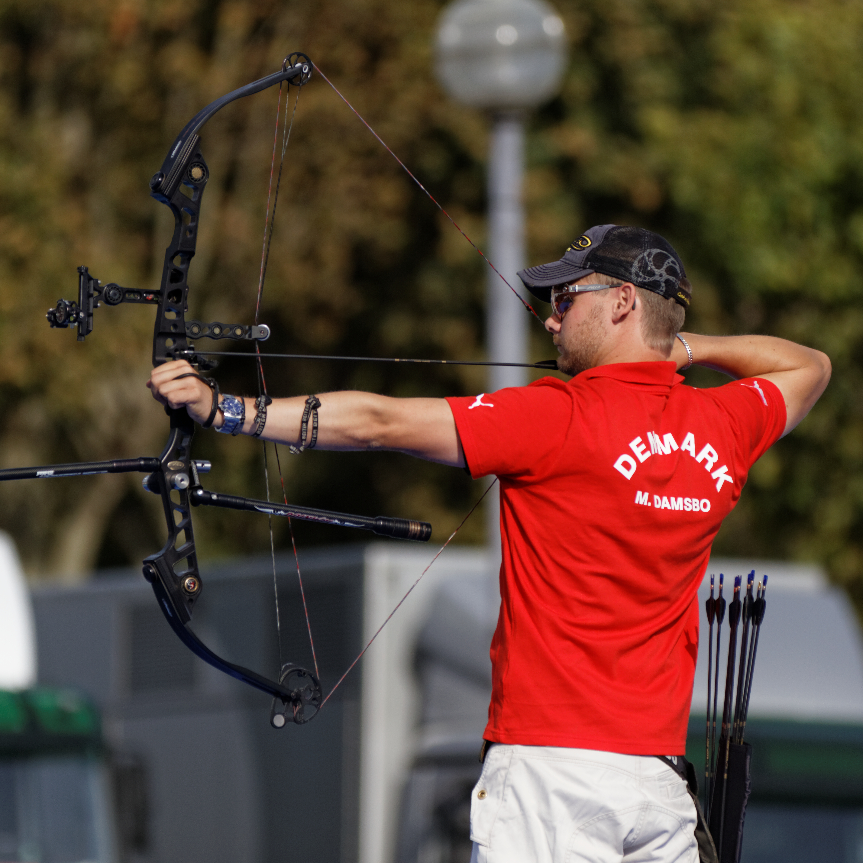 2013 FITA Archery World Cup, Paris, France. Men's individual compound final.